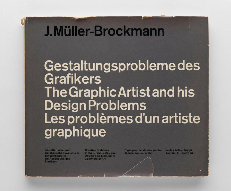 Cover of the book “Gestaltungsprobleme des Grafikers / The Graphic Artist and his Design Problems / Les problèmes d'un artiste graphique” by Josef Müller-Brockmann, first published by Niggli in 1961. This edition uses the typeface Akzidenz-Grotesk on the cover. In later editions the cover is set in Helvetica. Item nr “L MUEL 1” in the collection of the Museum für Gestaltung Zürich.